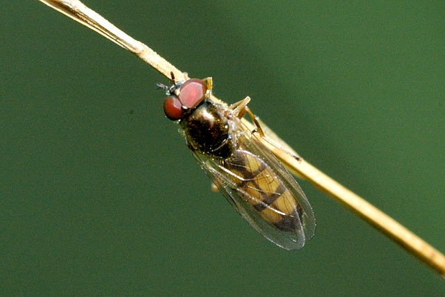 Picture taken in Commanster, Belgian High Ardennes . Species: Melanostoma mellinum